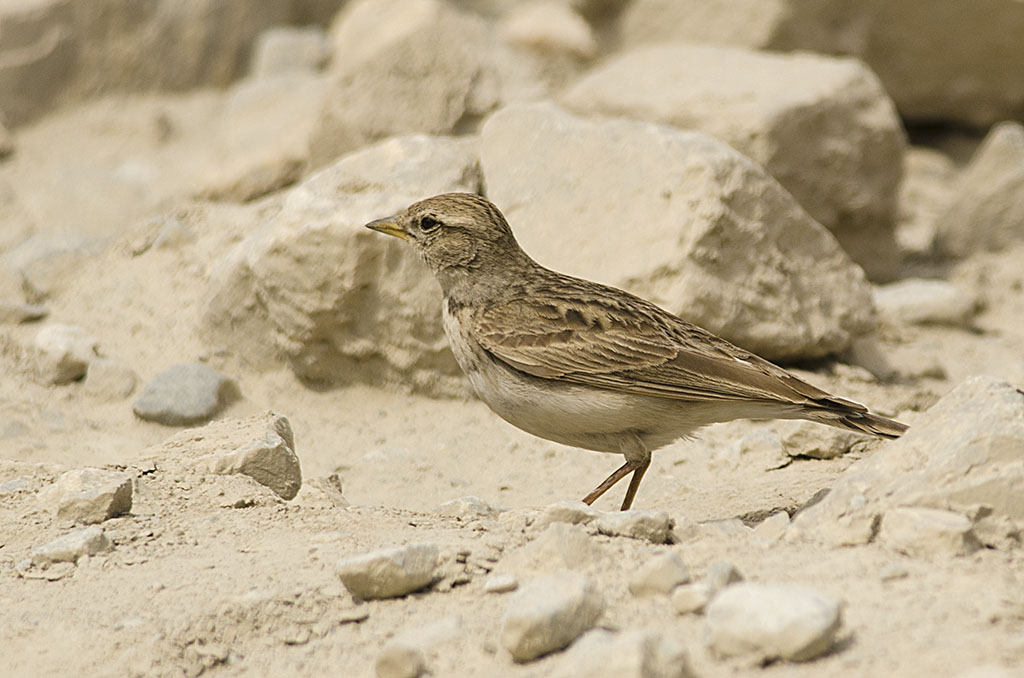 Hume's short-toed Lark, near Dras, Jammu and Kashmir, India